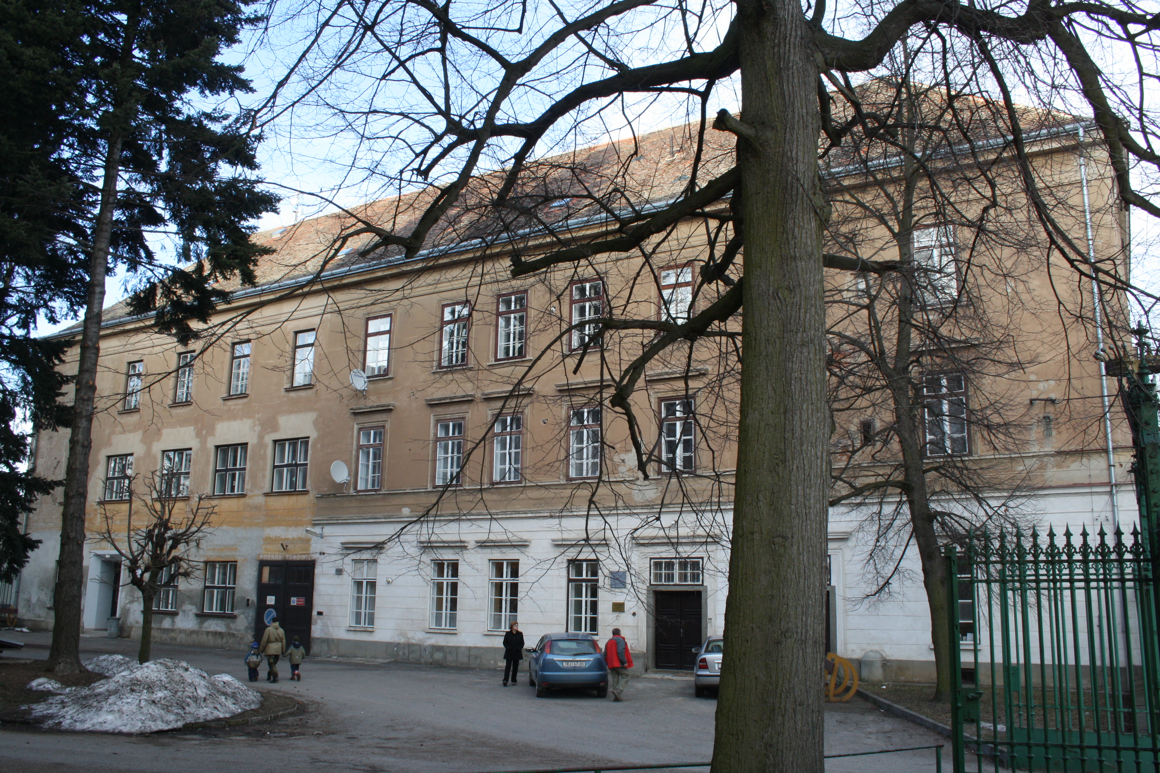 Right wing of Lesonice Castle.